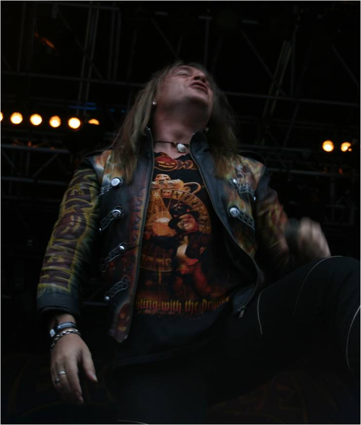 Halloween at Norway Rock Festival 2008